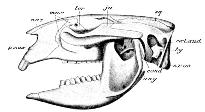 Fig. 72.—Skull of Wombat. Phascolomys wombat. (Lateral view.) ang, Angular process; cond, condyle of mandible; ex.oc, exoccipital; ext.aud, opening of bony auditory meatus; ju, jugal; lcr, lachrymal; max, maxilla; nas, nasal; p.max, premaxilla; sq, squamosal; ty, tympanic. (From Parker and Haswell's Zoology.) The modern accepted name is Vombatus ursinus.